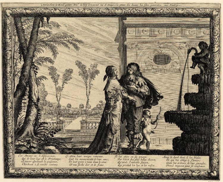 The Four Ages of Man - Youth. 17th century etching by Abraham Bosse